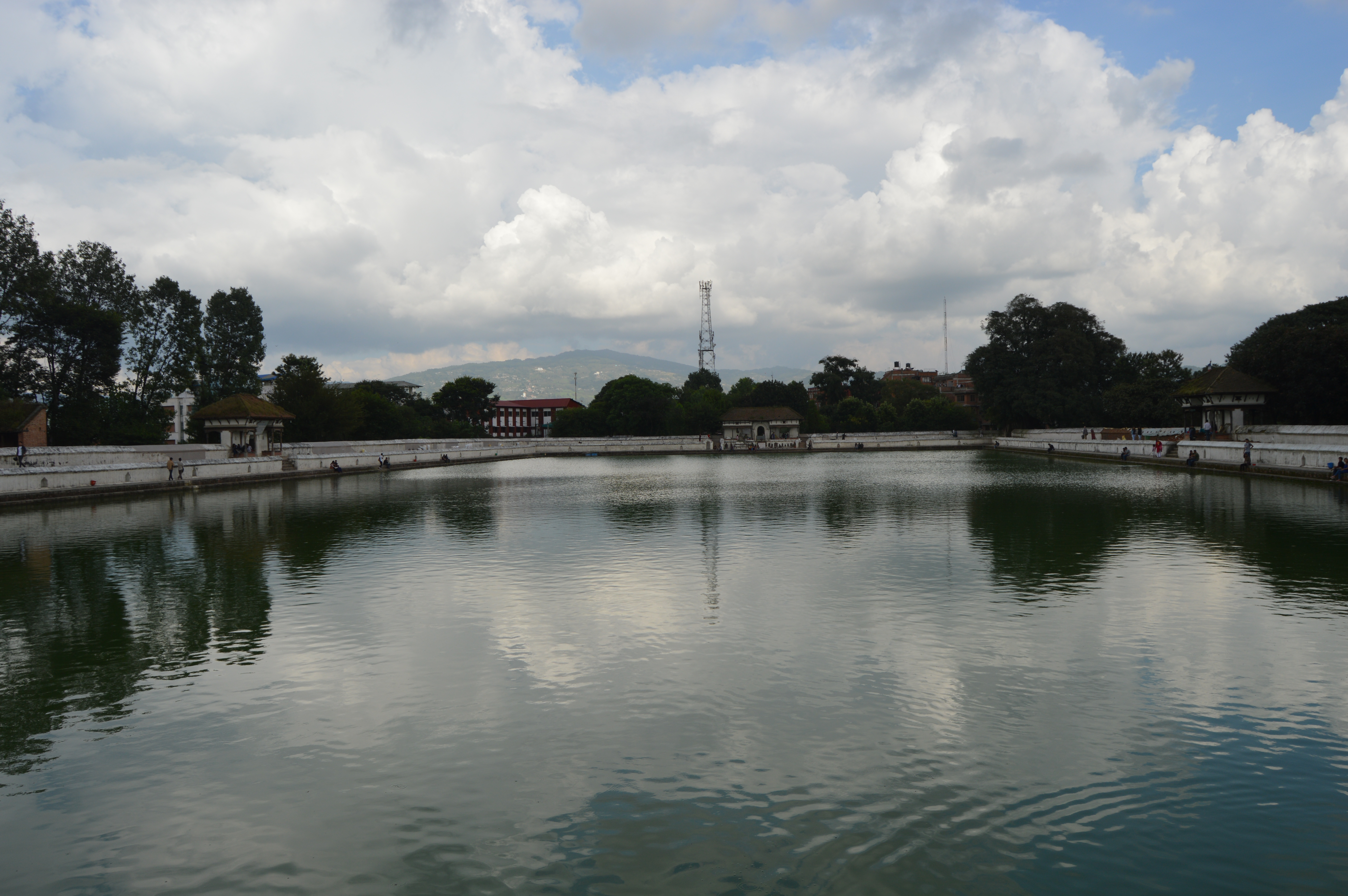 Ta Pukhu (Siddha Pokhari)